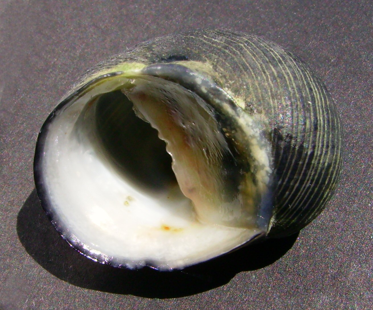 Nerita melanotragus (underside) from Wenderholm, near Auckland, New Zealand. This work has been released into the public domain by its author, Graham Bould. This applies worldwide. In some countries this may not be legally possible; if so: Graham Bould grants anyone the right to use this work for any purpose, without any conditions, unless such conditions are required by law.